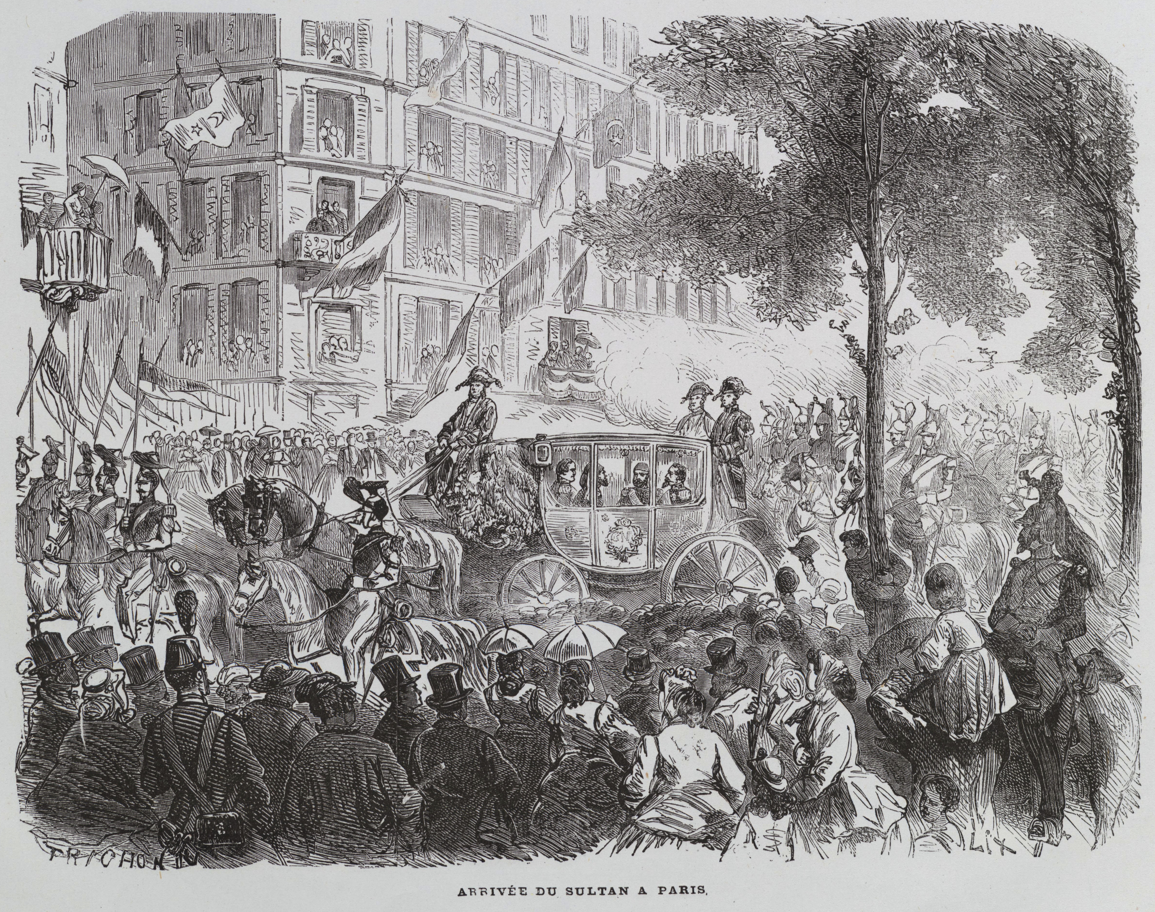 The Turkish Sultan arriving at the Paris World Fair, in 1867. On the image, the Sultan is sitting in the carriage, wearing a round hat and a grey scarf. Next to him is Napoléon III, who was very involved in the organization of the event. Parisian onlookers stand on each side of the street.